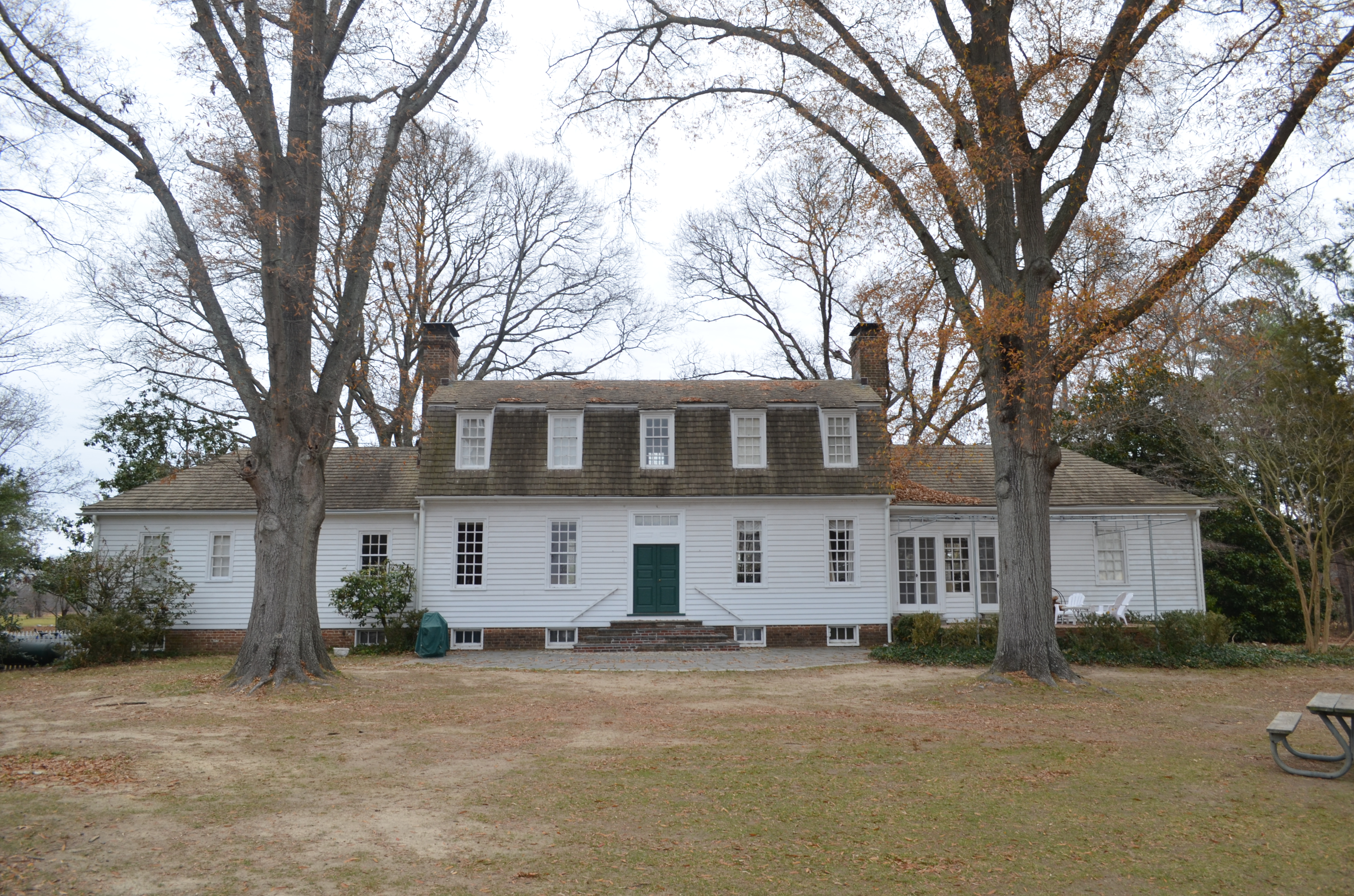 Uploaded by BM